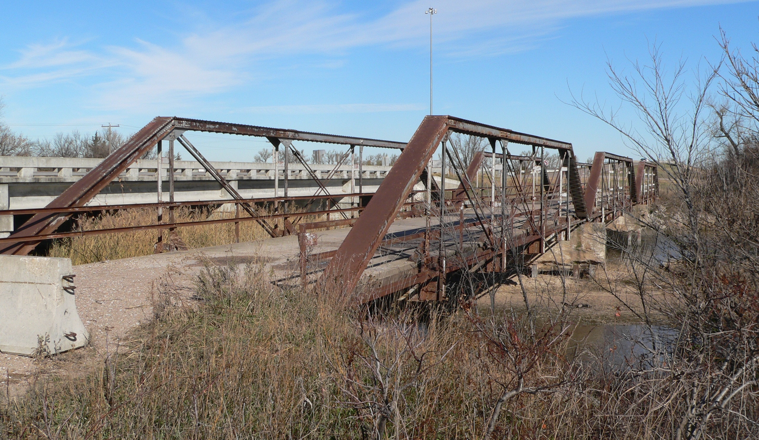 Kilgore Bridge in Buffalo County, Nebraska. The bridge crosses the north channel of the Platte River beside Nebraska Highway 10. The picture was taken facing northwest (upstream). The Pratt pony truss bridge was built in 1915 by the Nebraska Department of Roads. Highway 10 now crosses the river on a concrete bridge just upstream (visible in the picture). Until 2009, the Kilgore Bridge carried local traffic to a frontage road beside Interstate 80 north of the river; however, it is now closed to motor traffic. The bridge is listed in the National Register of Historic Places.